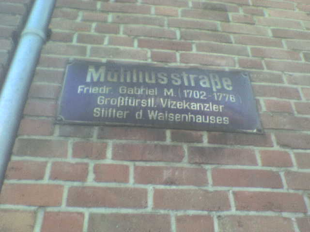 Street sign "Muhliusstraße" in Kiel-Exerzierplatz